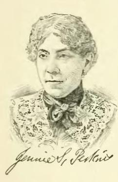 Jennie S Perkins, from Johnson, Rossiter , ed. (1906) Perkins, Jennie Saunders, 8, American Biographical Society, p. 296